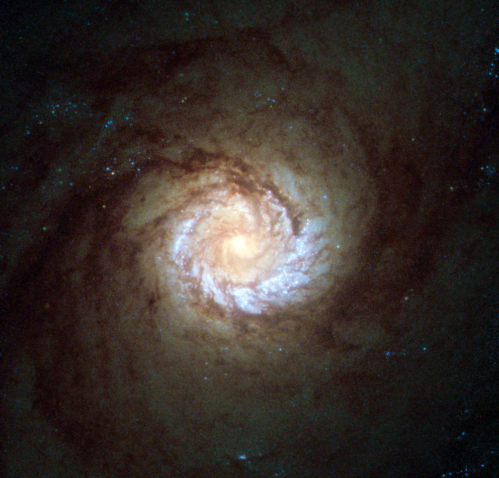 This new Hubble picture is the sharpest ever image of the core of spiral galaxy Messier 61. Taken using the High Resolution Channel of Hubble's Advanced Camera for Surveys, the central part of the galaxy is shown in striking detail. Also known as NGC 4303, this galaxy is roughly 100 000 light-years across, comparable in size to our galaxy, the Milky Way. Both Messier 61 and our home galaxy belong to a group of galaxies known as the Virgo Supercluster in the constellation of Virgo (The Virgin) — a group of galaxy clusters containing up to 2000 spiral and elliptical galaxies in total. Messier 61 is a type of galaxy known as a starburst galaxy. Starburst galaxies experience an incredibly high rate of star formation, hungrily using up their reservoir of gas in a very short period of time (in astronomical terms). But this is not the only activity going on within the galaxy; deep at its heart there is thought to be a supermassive black hole that is violently spewing out radiation. Despite its inclusion in the Messier Catalogue, Messier 61 was actually discovered by Italian astronomer Barnabus Oriani in 1779. Charles Messier also noticed this galaxy on the very same day as Oriani, but mistook it for a passing comet — the comet of 1779. A version of this image was submitted to the Hubble’s Hidden Treasures image processing competition by Flickr user Det58.